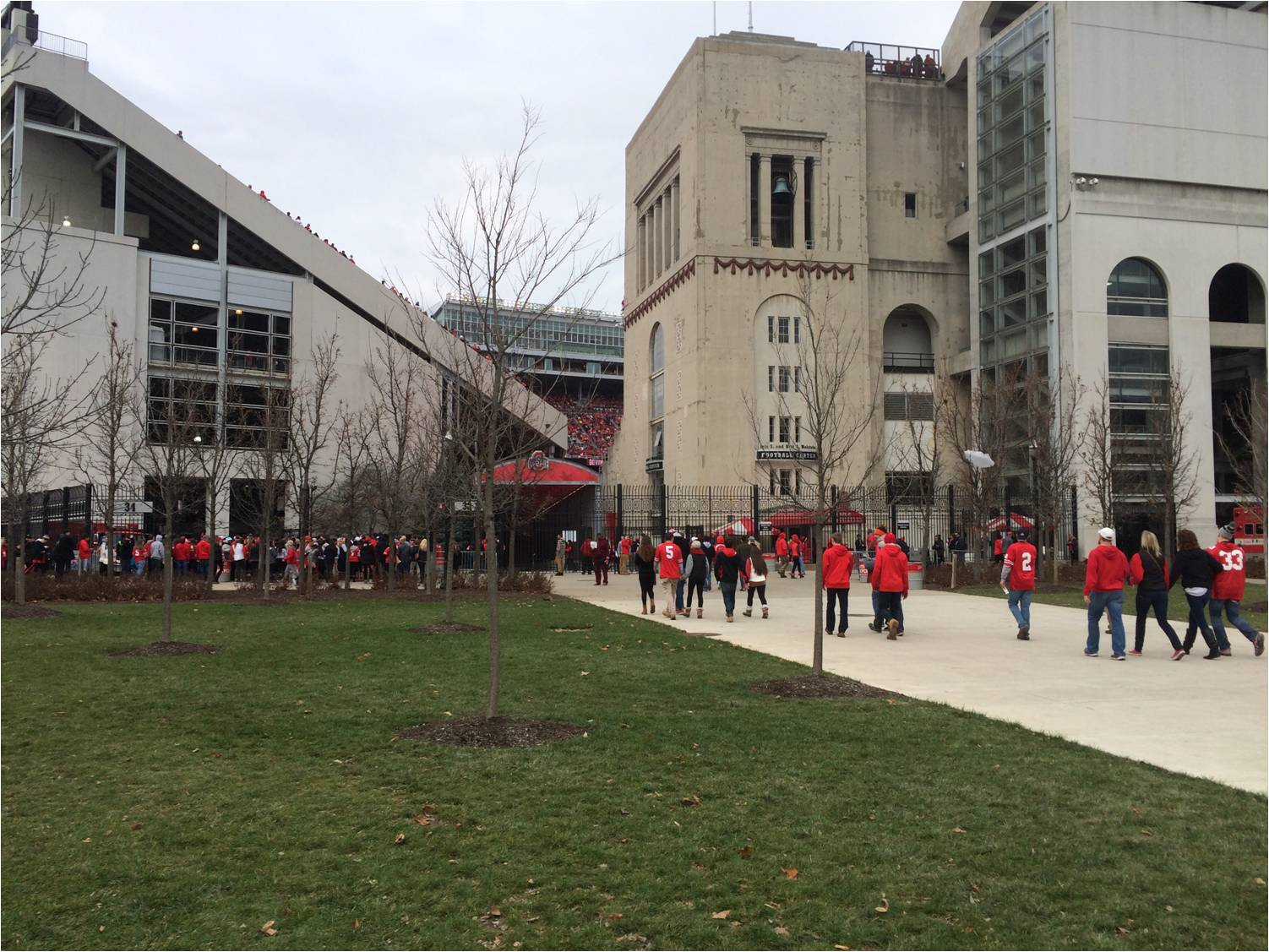 Ohio Stadium - Michigan game - November 29, 2014